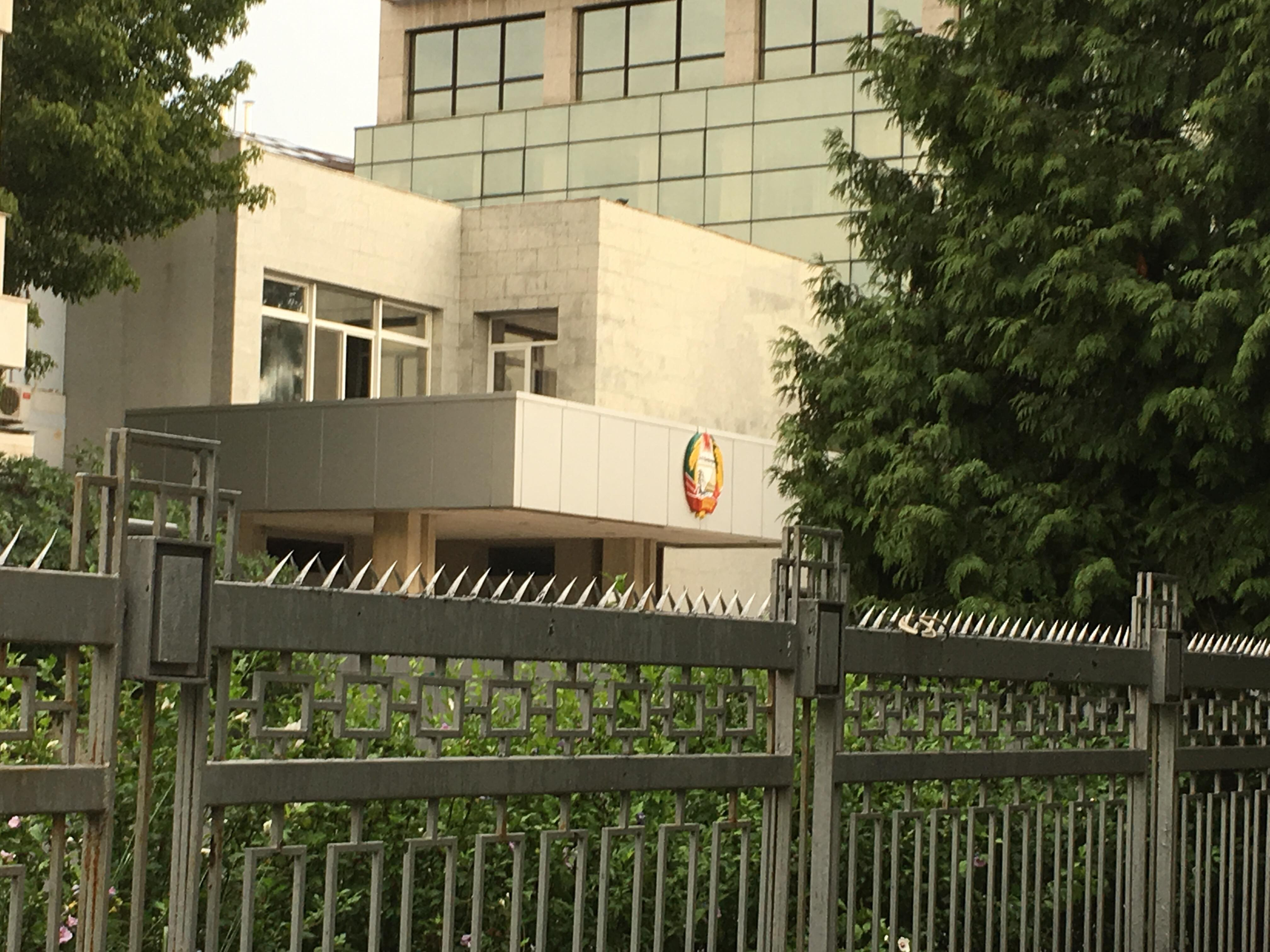 Embassy of North Korea in Bucharest, Romania